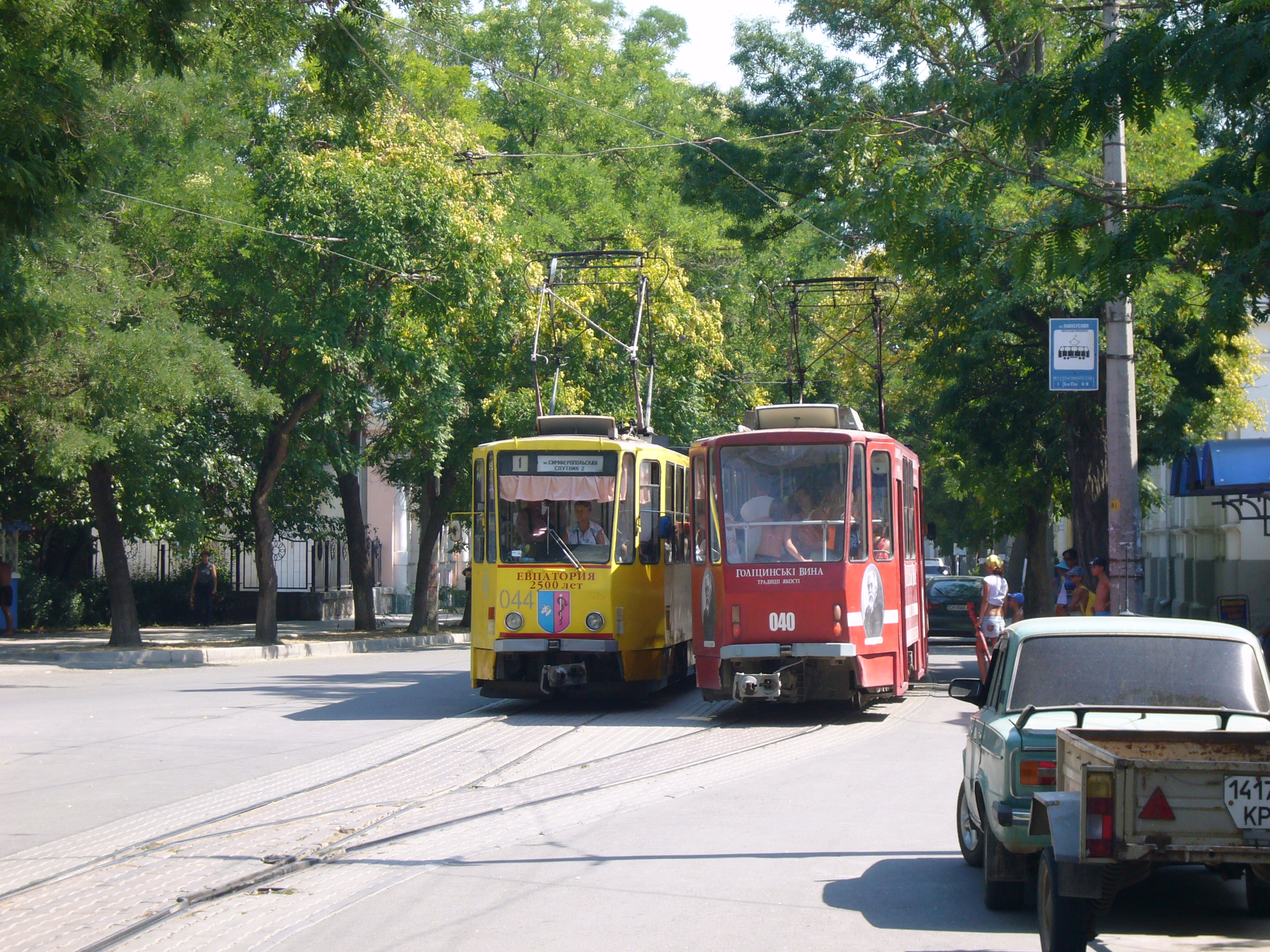 Two trams bypassing each other on a one-track tram system in Eupatoria, Crimea, Ukraine.